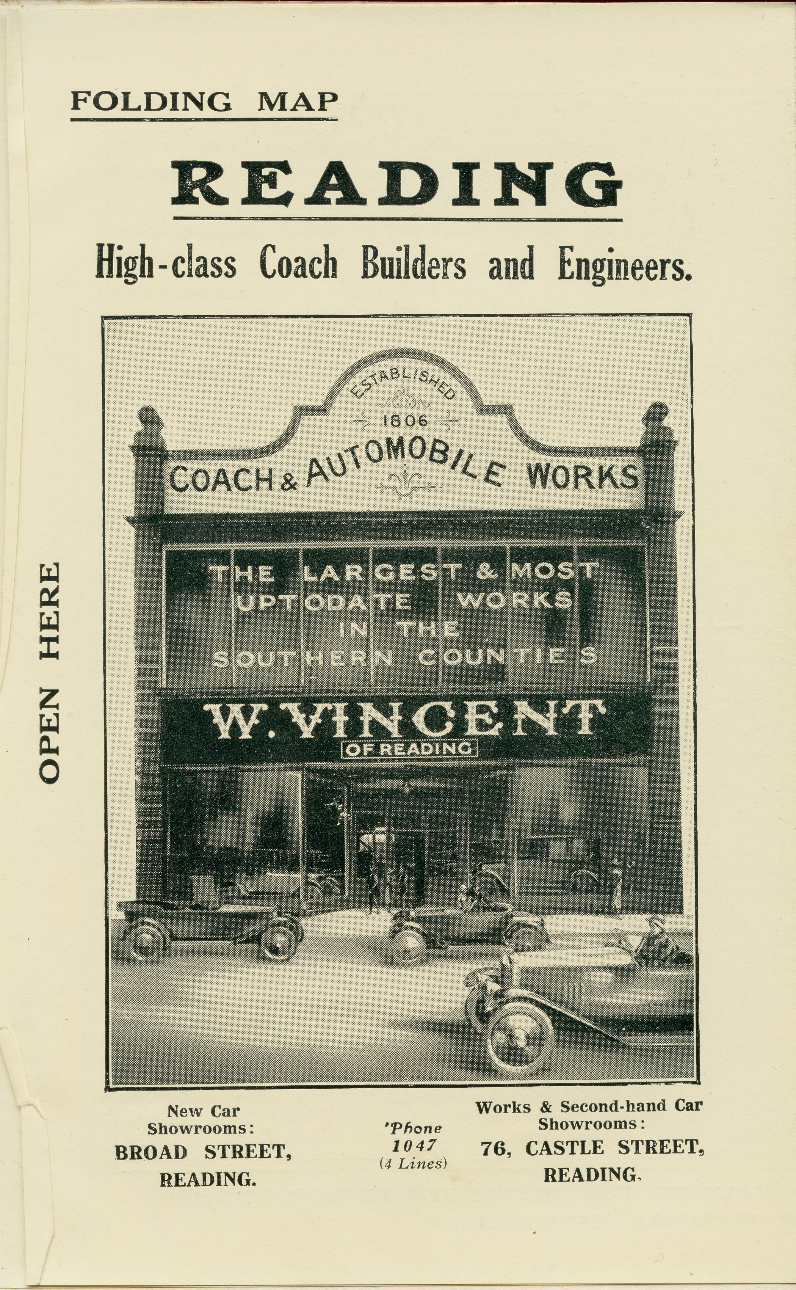 The image shows the main building of Vincents of Reading, the coachbuilder and later dealer of BMW cars.